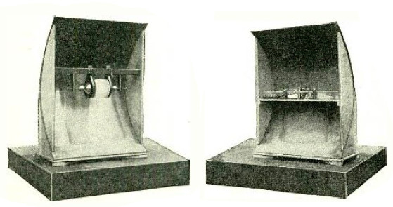 Very early directional spark radio transmitter and receiver used by Guglielmo Marconi in his first historic experiments in radio communication in 1895. The transmitter (left) consists of a Righi spark gap powered by an induction coil (not visible) connected between the arms of a short dipole antenna at the focal line of a cylindrical sheet metal parabolic reflector to concentrate the radio waves into a beam. The transmitter and receiver dishes were pointed at each other. The receiver (right) consists of a similar parabolic reflector and dipole antenna, connected to a coherer, a primitive radio wave detector consisting of a glass tube with two electrodes with metal powder between them. Sparks across the spark gap in the transmitter created radio waves which were focused into a beam by the reflector aimed at the receiver. At the receiver the radio waves picked up by the dipole antenna caused the metal powder in the tube to "cohere" (clump together), causing the coherer to conduct electricity. Current from a battery flowed through the coherer, ringing a bell. The frequency of radio waves produced would have been in the UHF range, several hundred megahertz, roughly the frequency now used by television stations. Marconi found that using parabolic antennas increased the transmission distance greatly compared to his earlier plain dipole antennas. Caption of left image: This picture shows a very early model transmitter, invented by Marconi for short-wave beam-radio work. Caption of right image: Marconi's early model receiver for focusing the signals from beam trasmission, designed by him in 1895. Alterations to image: combined two separate images from source page.